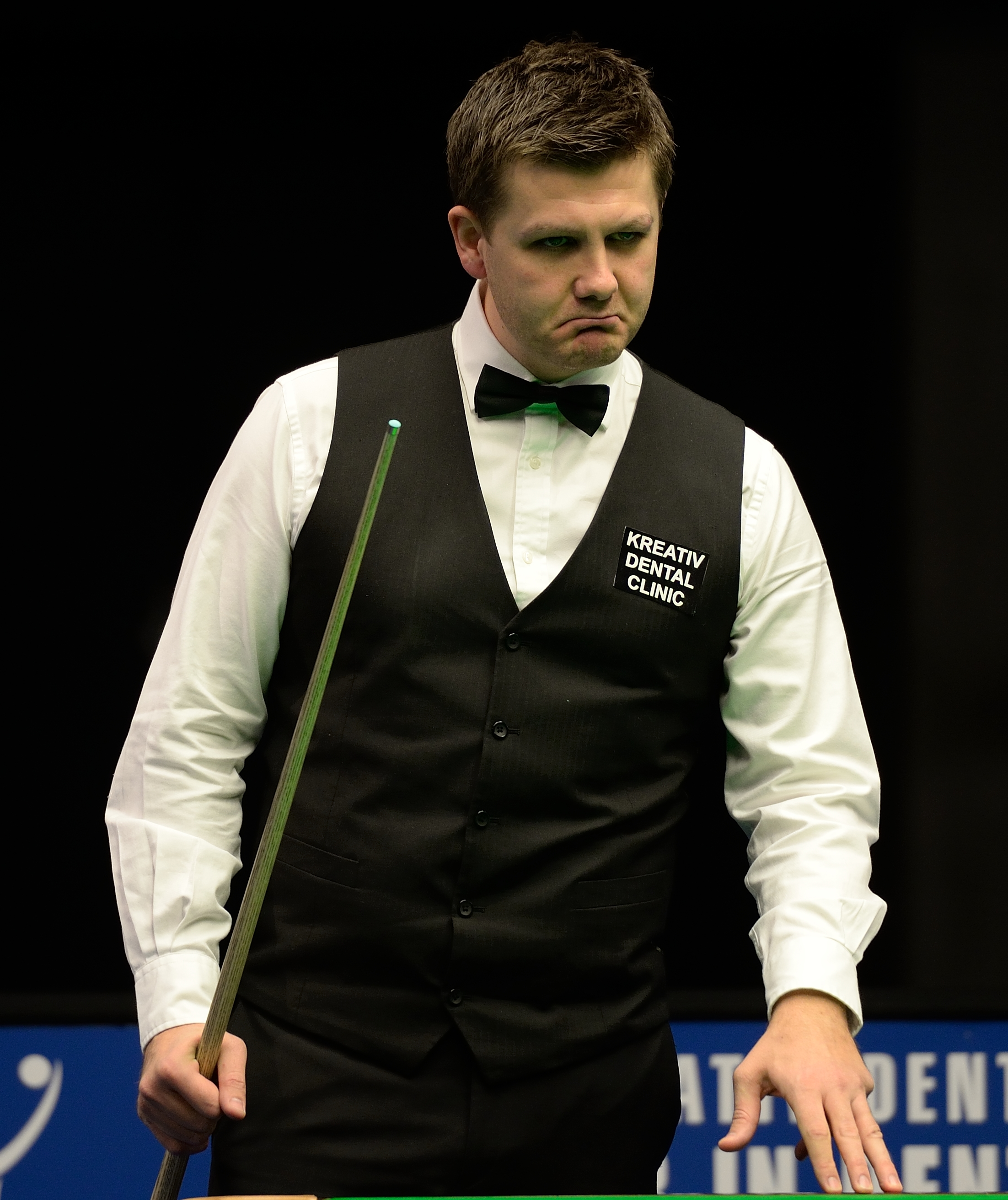 Picture taken in Berlin during the Snooker German Masters in 2015. Ryan Day.